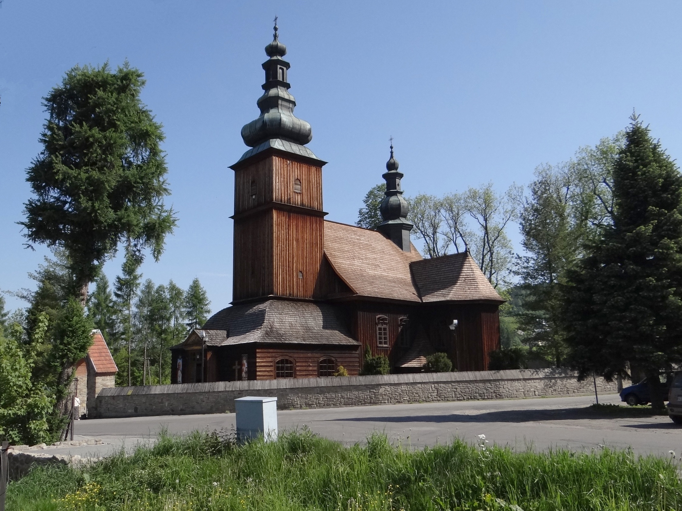 Church of the Holy Apostles Simon and Jude Thaddeus in Łętowni